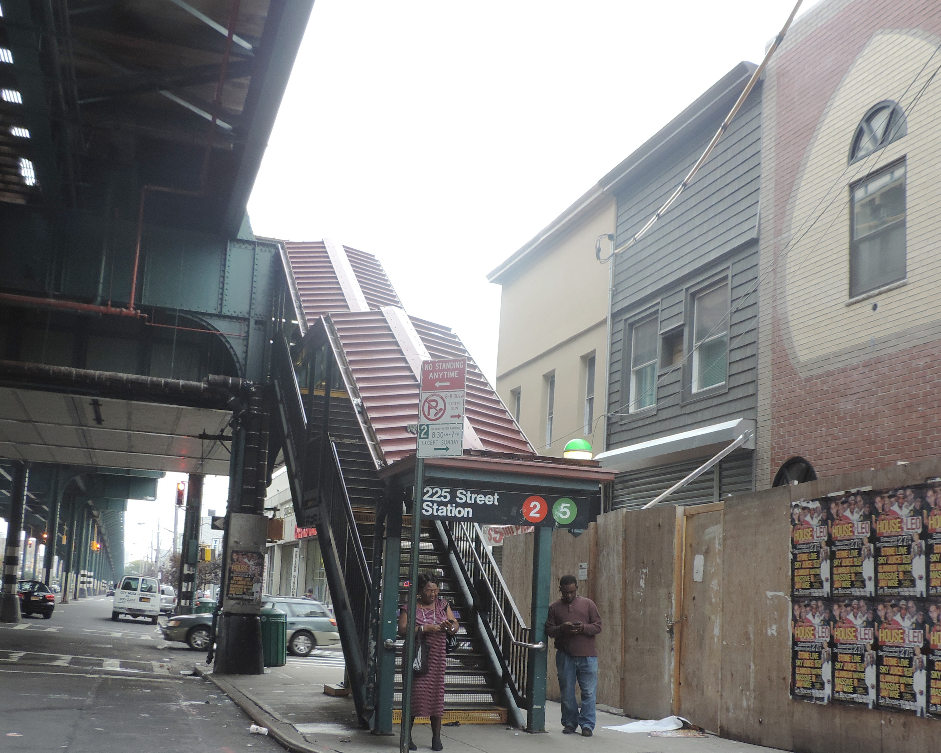 Looking west at stairway from White Plains Road on a cloudy afternoon.